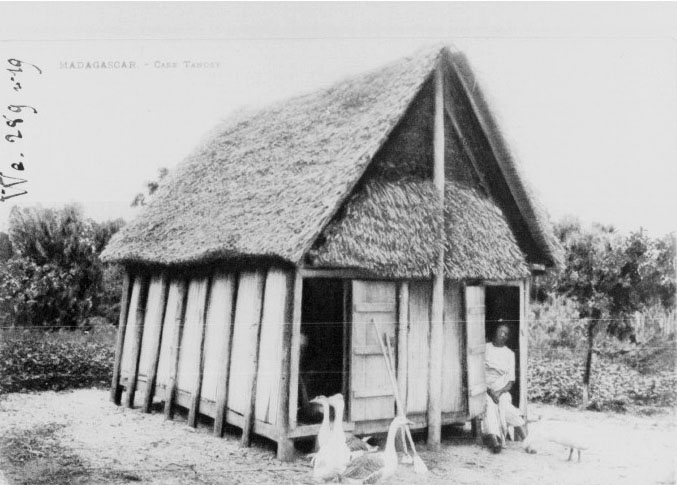 Tanosy (Antanosy) hut in Madagascar (1908)